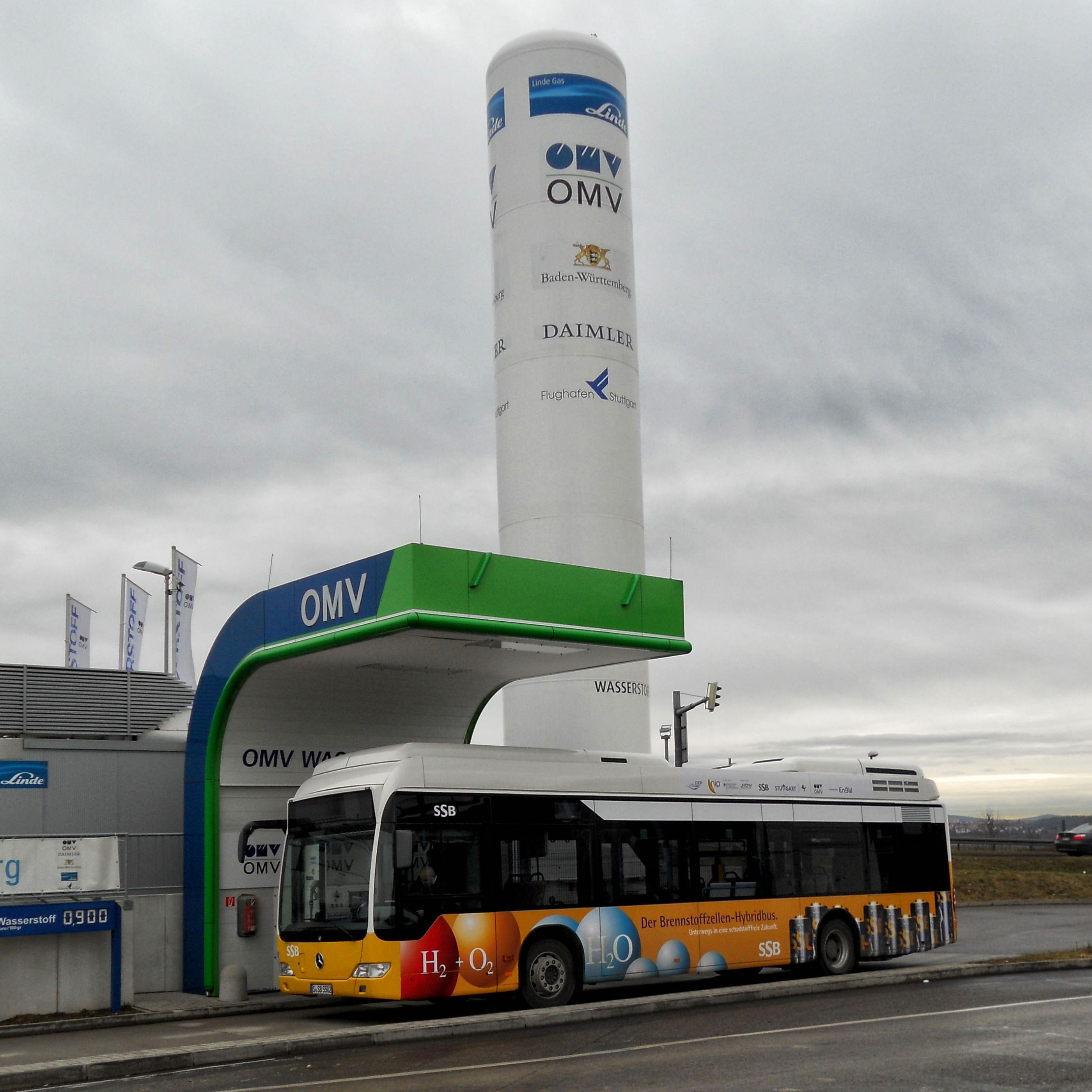 Mercedes-Benz Citaro FuelCELL hybrid during refueling of hydrogen at the OVM station at Stuttgart Airport (Stuttgart tram AG)